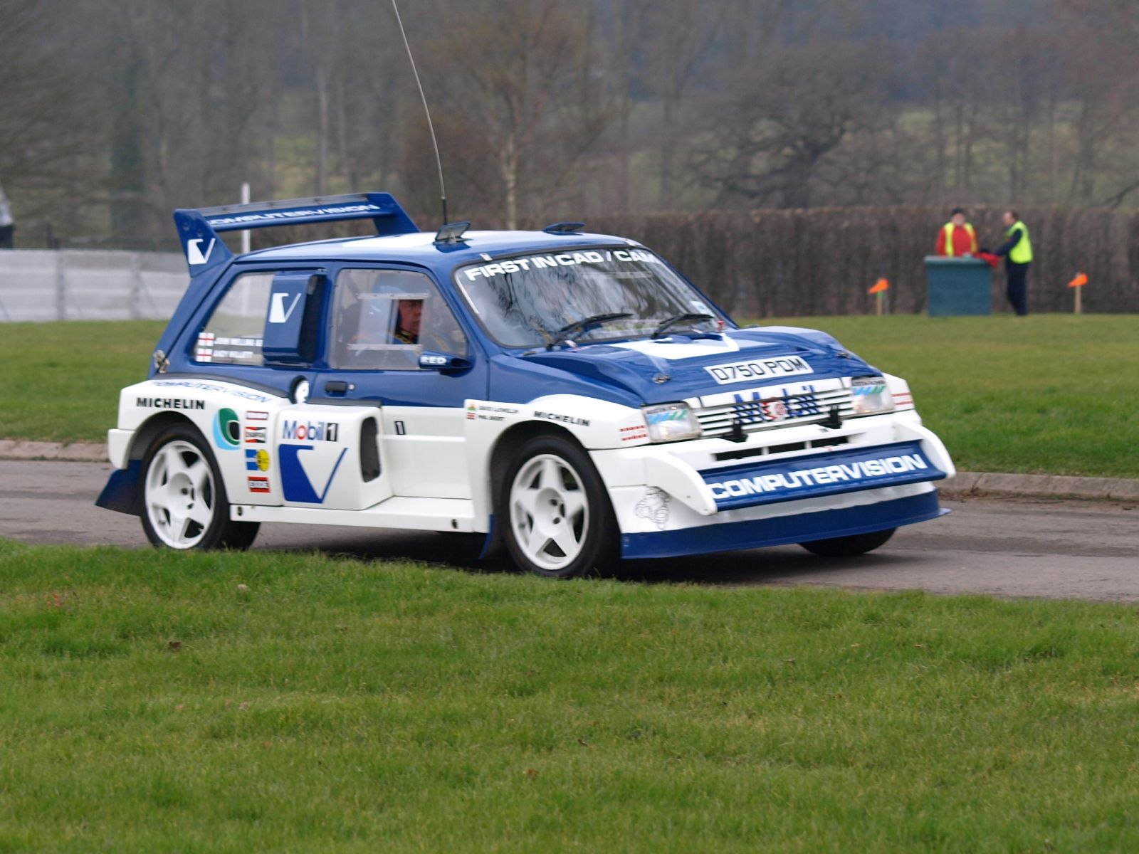 David Llewellin's MG Metro 6R4 driven at Race Retro 2008, the International Historic Motorsport Show, at Stoneleigh Park, Coventry, England.